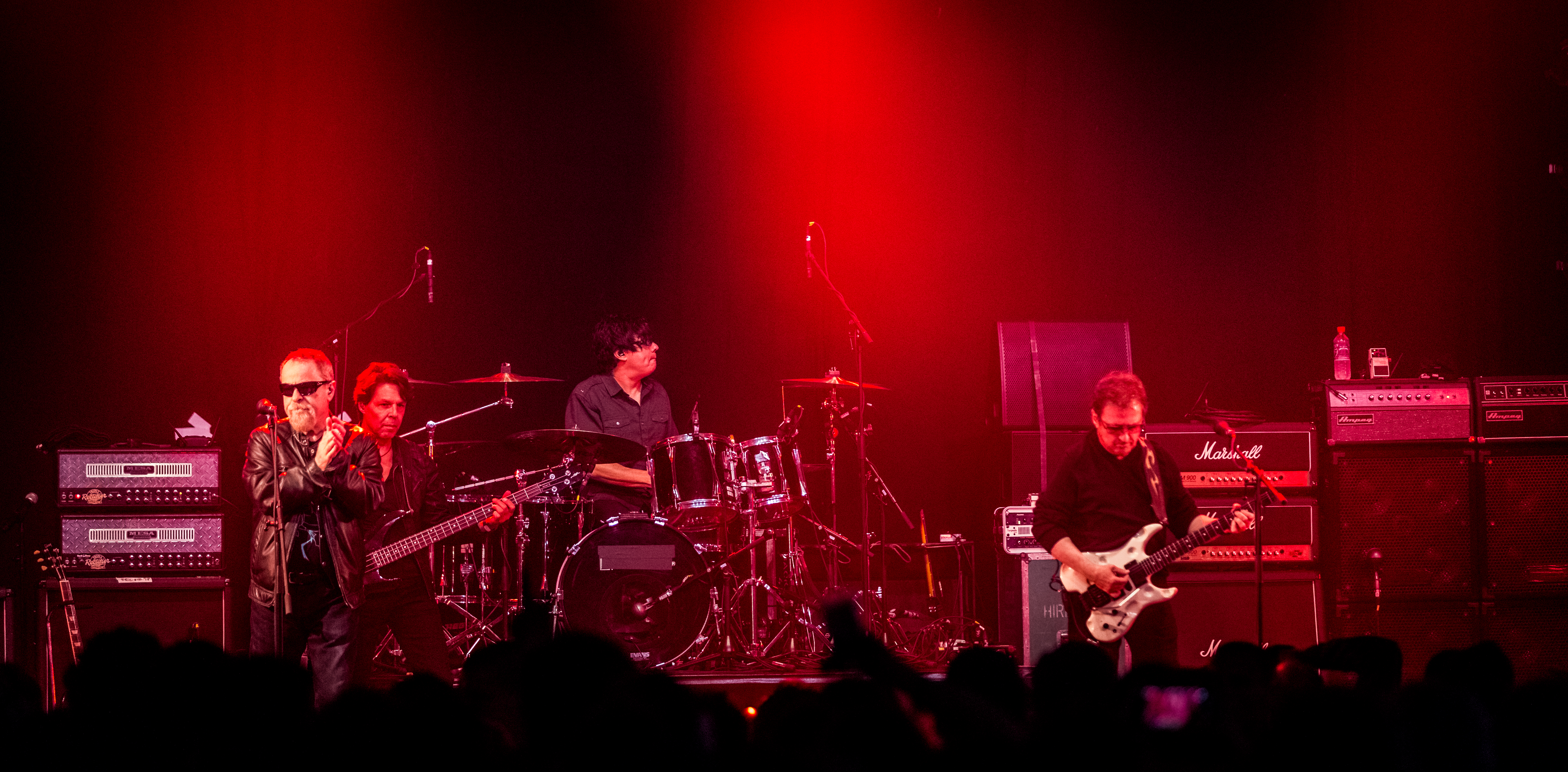 Blue Öyster Cult - Wacken Open Air 2016